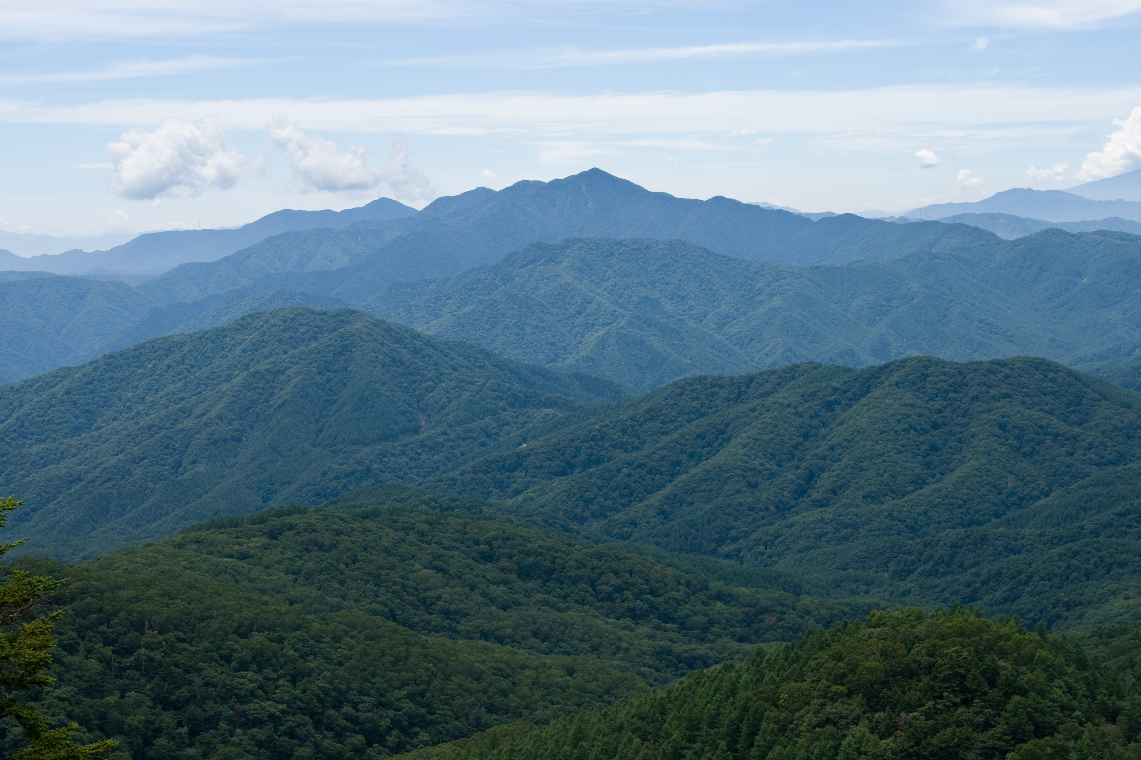 Mt.Daibosatsurei as seen from Mt.Kasatori, Okuchichibu Mountains, Japan.